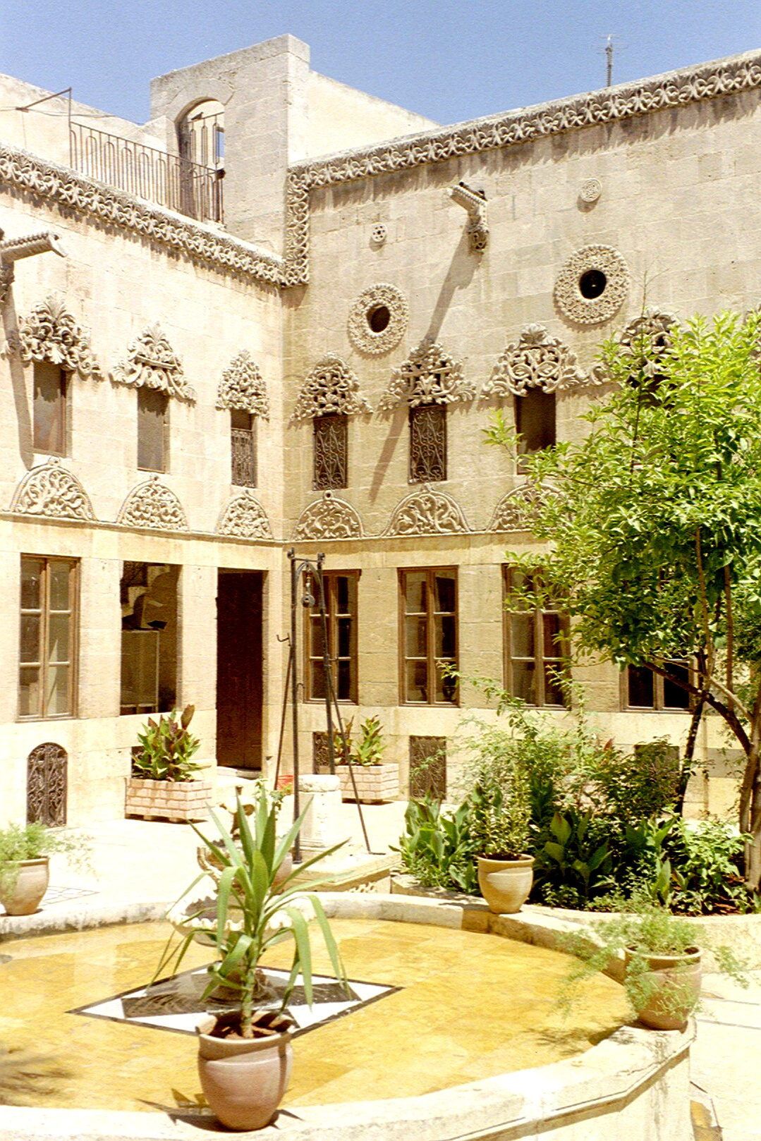 "Museum of Popular Tradition", aka "Ajikbash House", in Aleppo, Syria, June 2001. Picture taken by me in June, 2001, with an automatic Olympus mju:zoom140 camera.